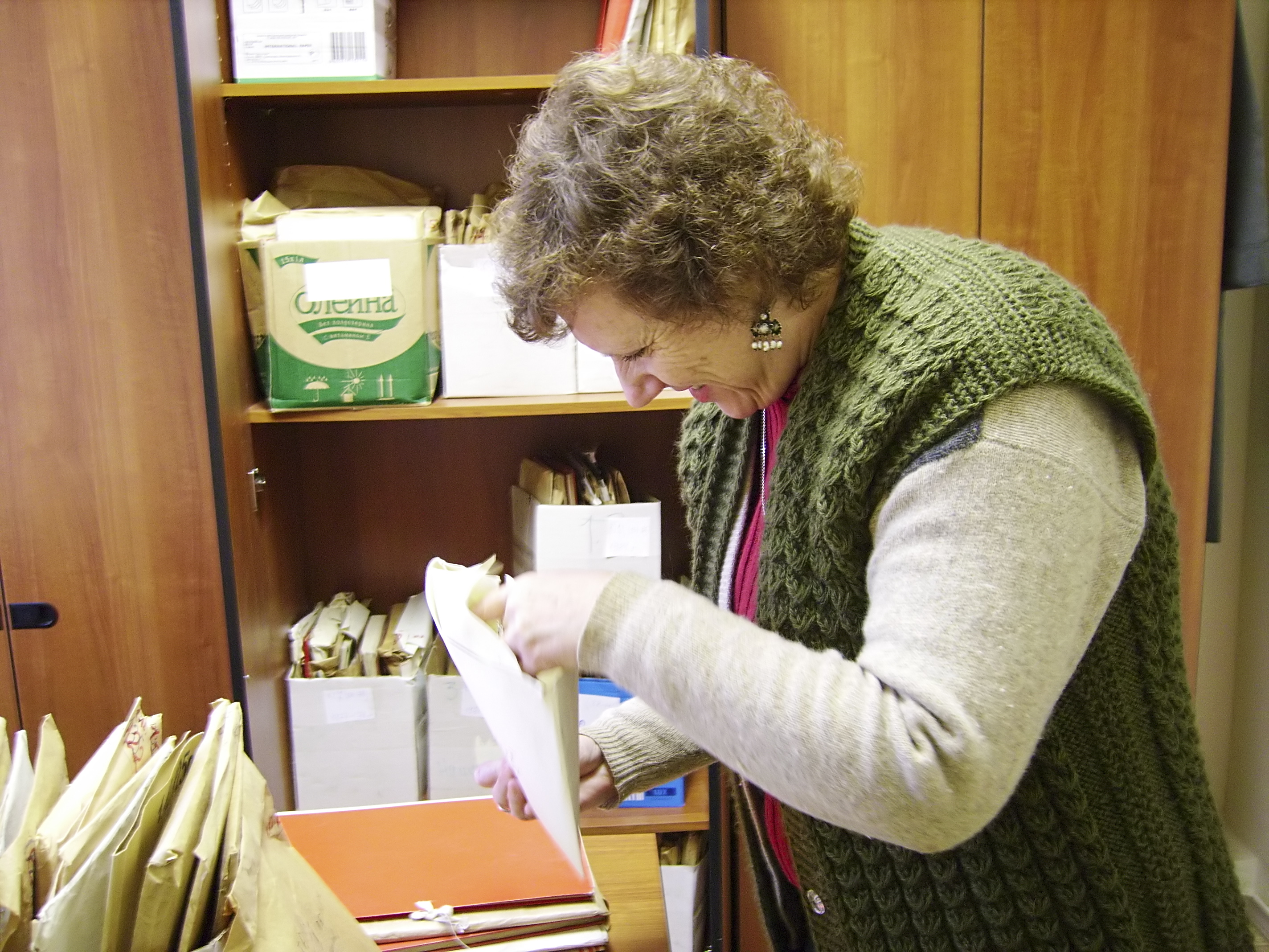 Dmitrieva E. Y. Museology laboratory, Museum of Contemporary History of Russia